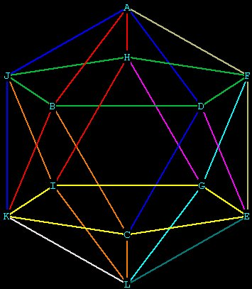 Photo courtesy of Figure 16 -- attempting to show the individual pentagons of the icosahedron